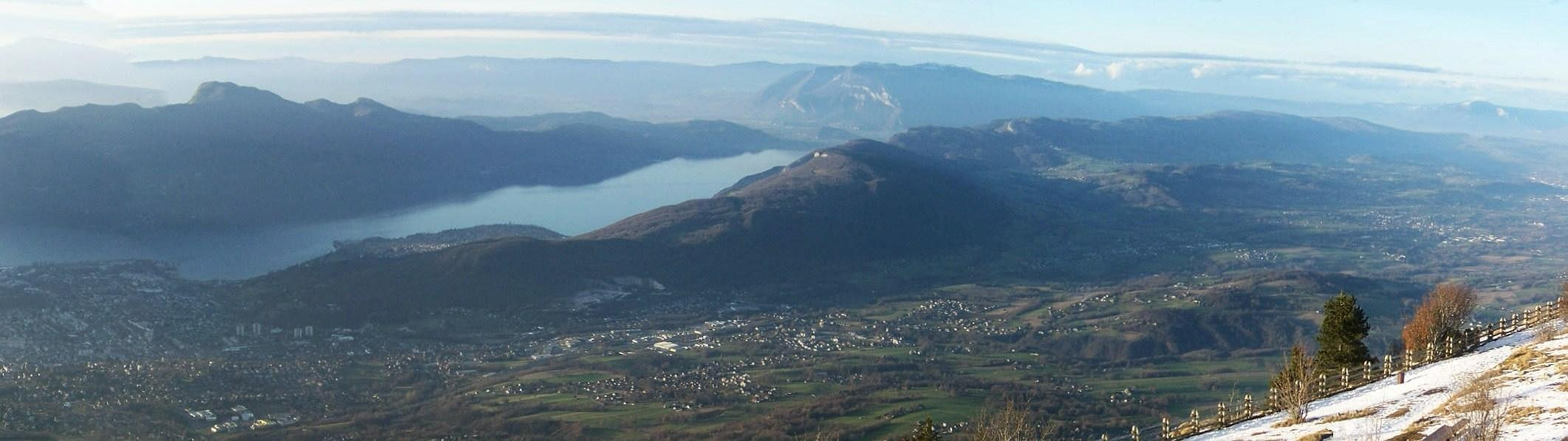 Sight of the Massif de la Chambotte, lake of Bourget and Mont du Chat (background), from le Revard mount, in Savoie, France.